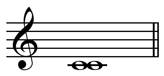 Unison on C = C. Just: 1:1 = 100 cents. Equal-tempered: 20/12:1 = 0 cents.